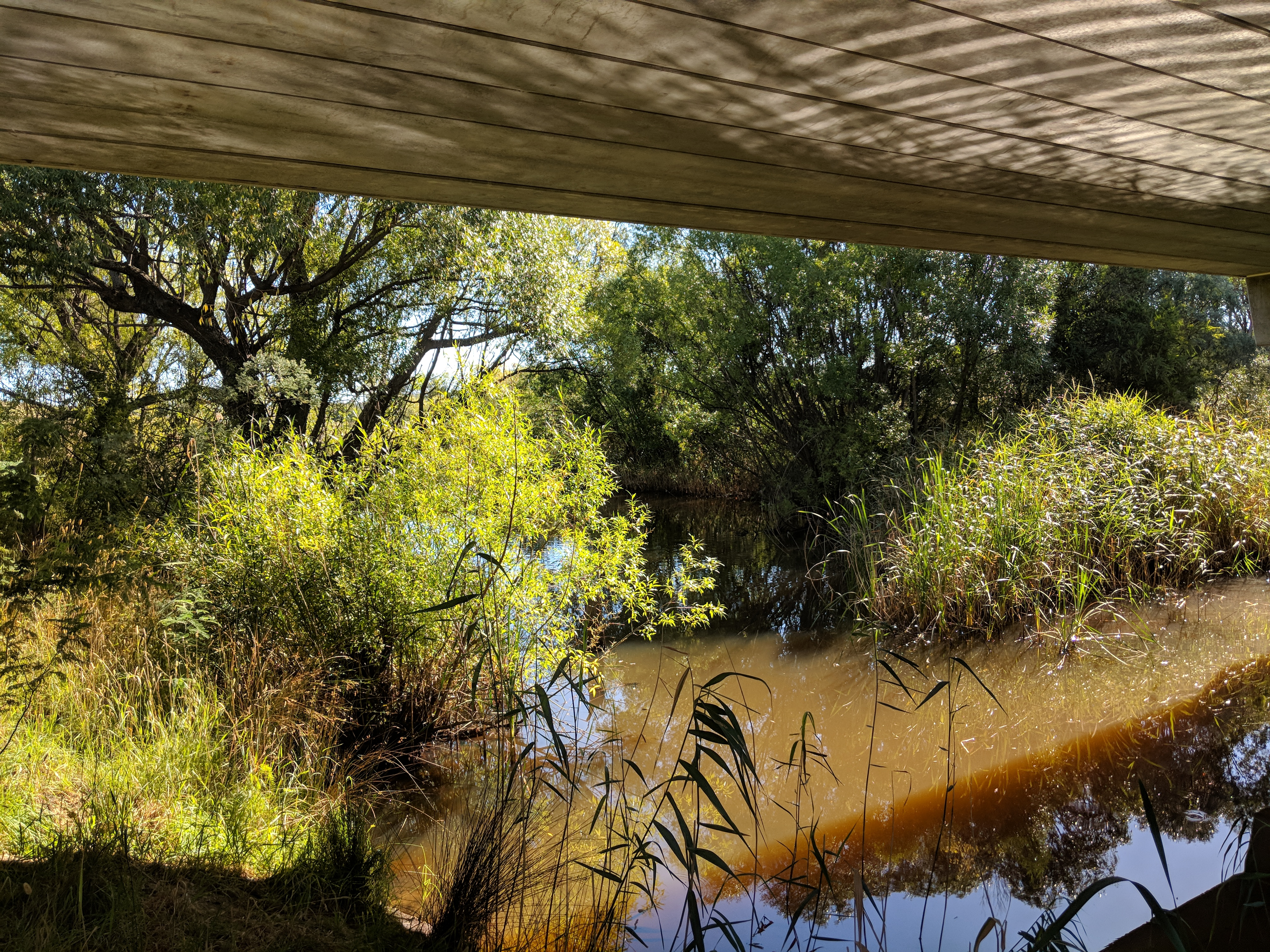 Mulloon Creek under Mulloon Bridge on the Kings Highway at Mulloon, New South Wales